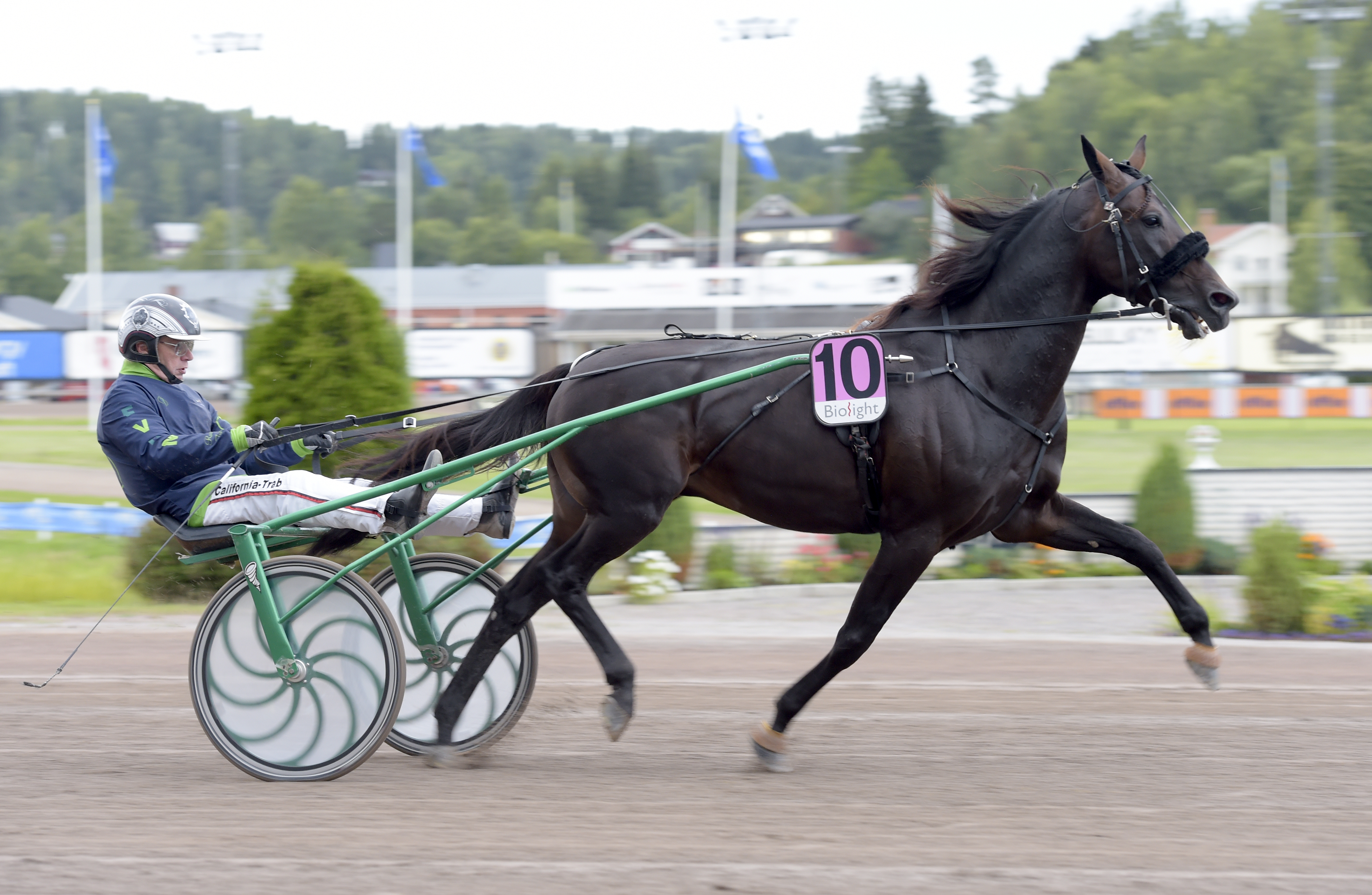 Trotting horse Ringostarr Treb and driver Wilhelm Paal. Sundsvall Open Trot, Bergsåkers travbana, 2017-08-26.